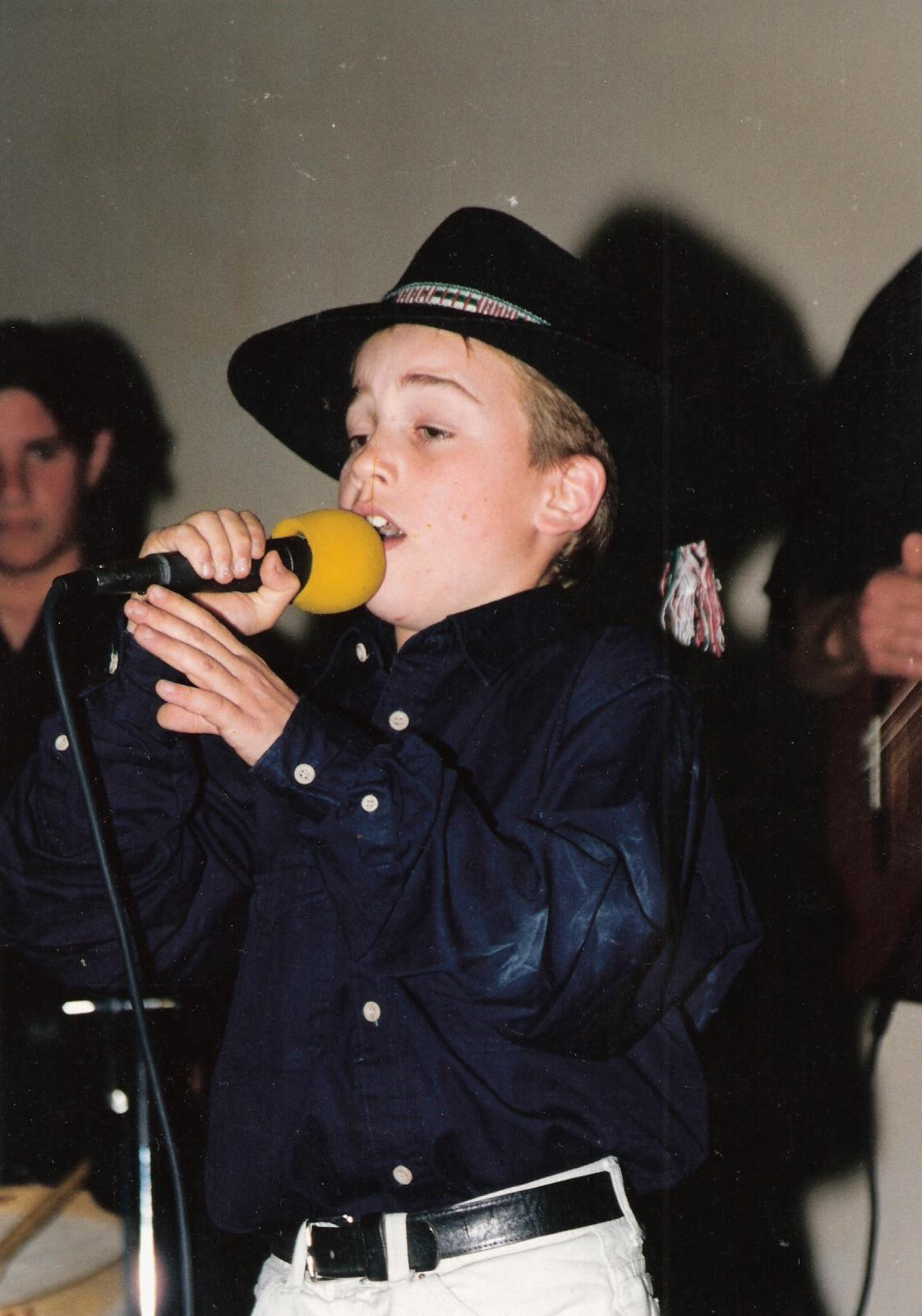 Los Comienzos de Ivan Coniglio. Año 2001.